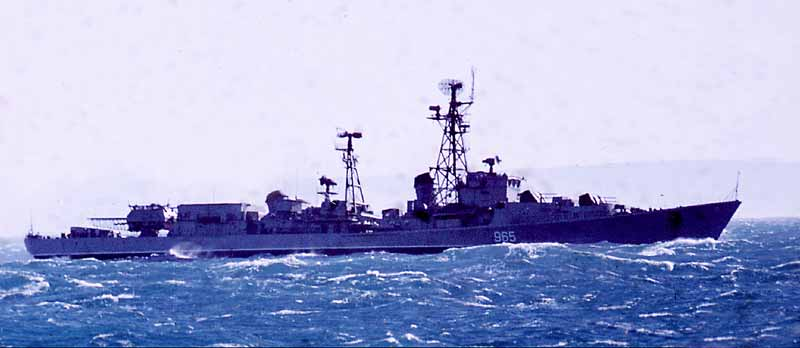 An aerial port quarter view of the Soviet Project 56-M (NATO - Kildin class) destroyer Neulovimyy off Morocco Jan 1970.